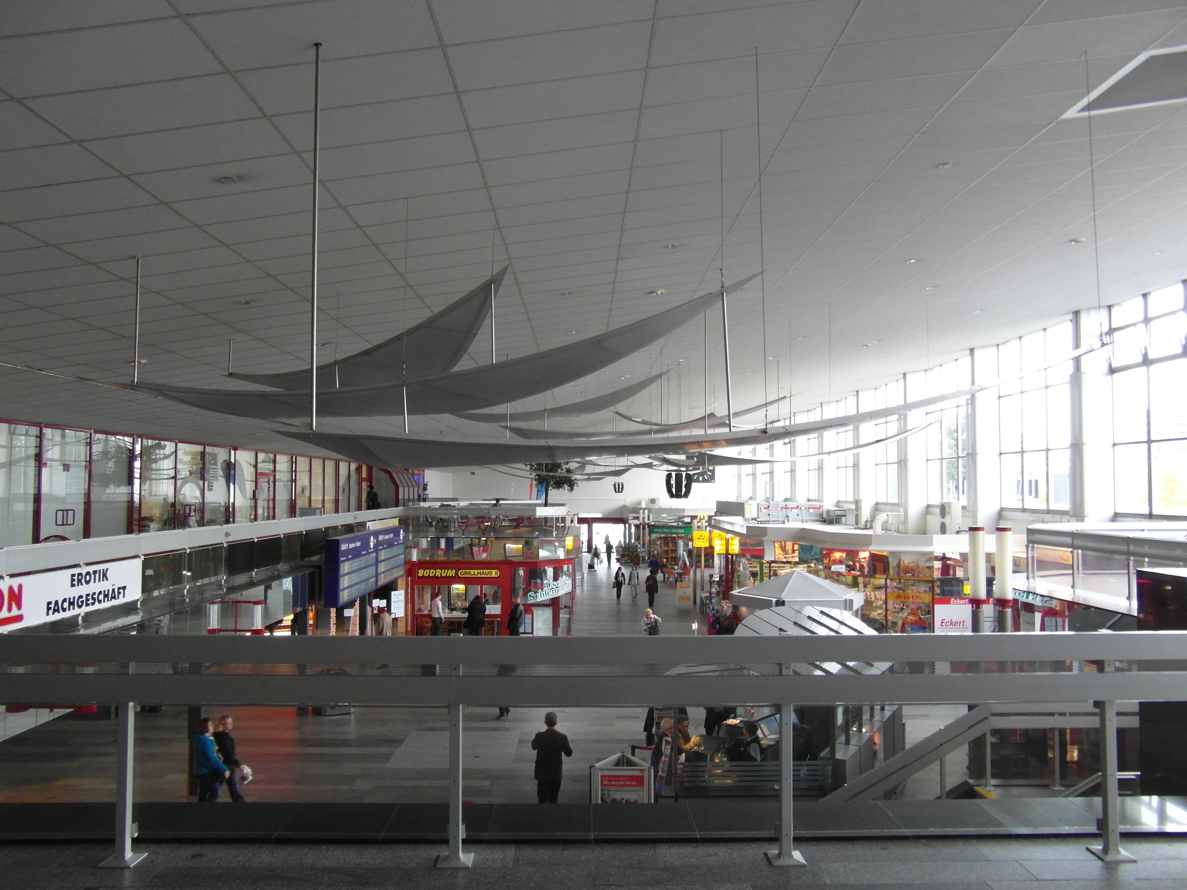 Bahnhof Cottbus